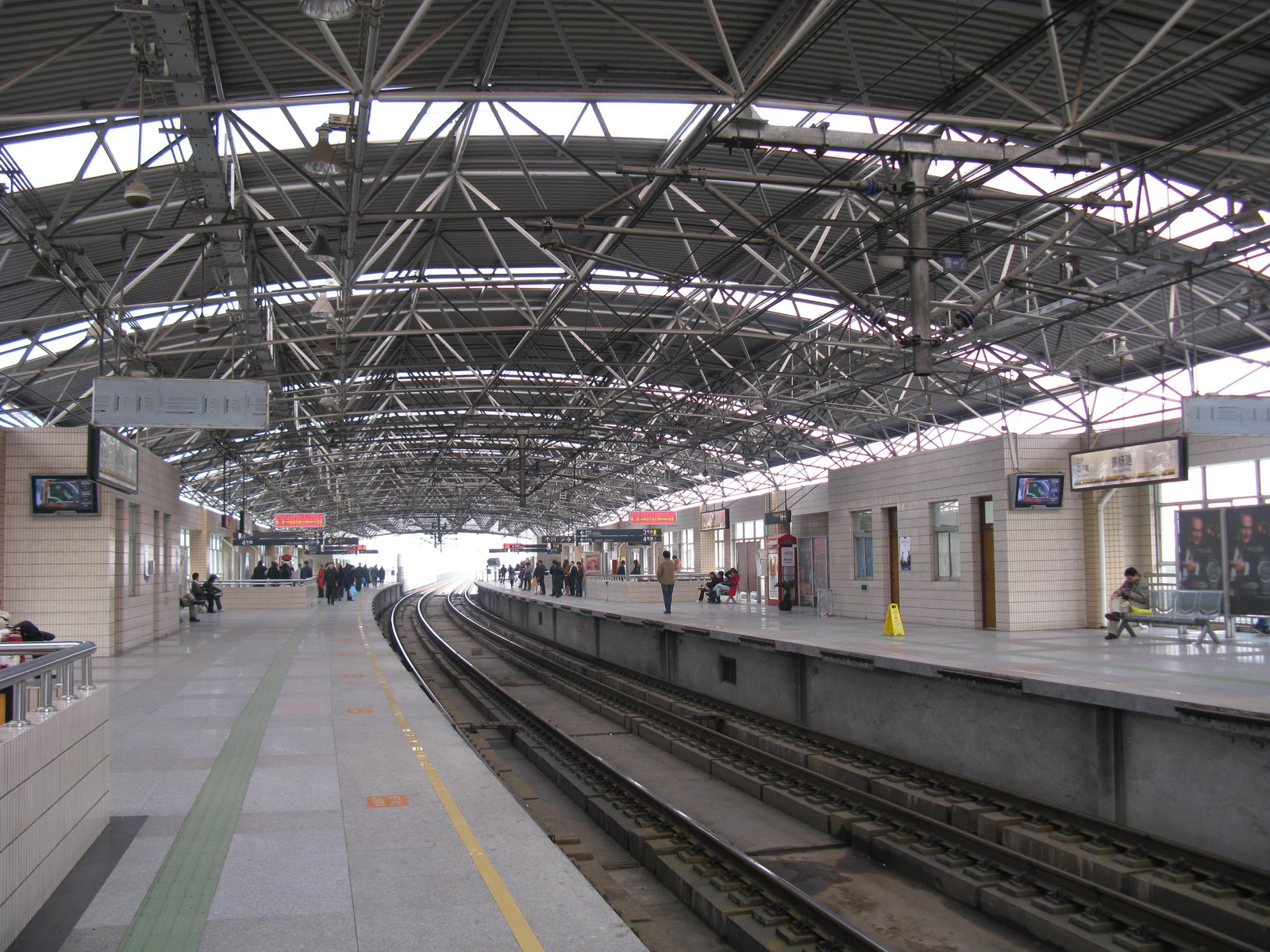 Line 3 & Line 4 Platform of Caoyang Road Station